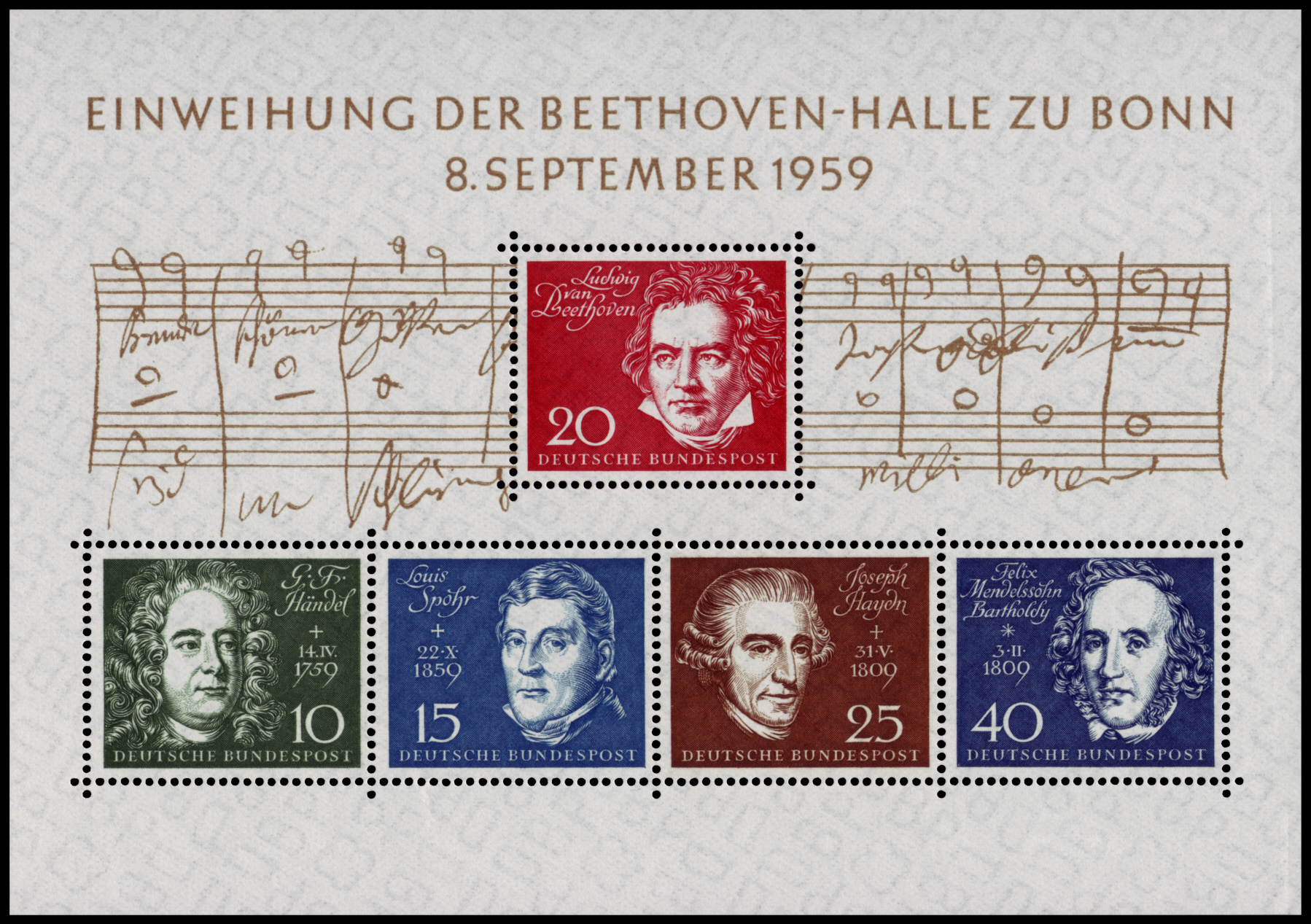 Induction of the Beethoven Hall in Bonn Graphic designer: Kern Ausgabepreis: 10+15+20+25+40 Pfennig Size 148 mm x 104 mm First Day of Issue / Erstausgabetag: 8. September 1959 Michel-Katalog-Nr: 315, 316, 317, 318, 319 (Block 2) Auflage:4.117.000 Blocks Drucktechnik:Stichtiefdruck, der Aufdruck des Blockes in Buchdruck